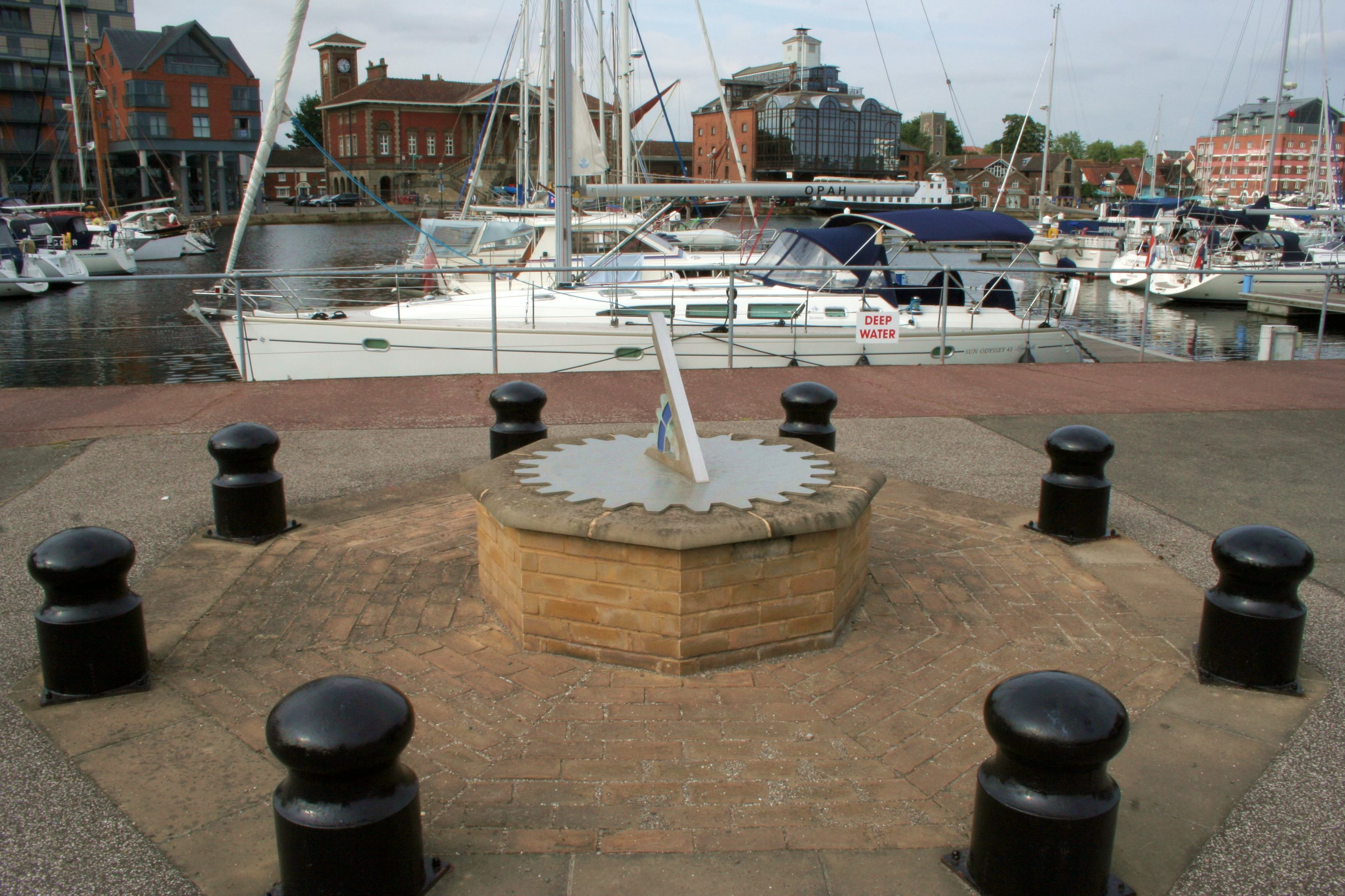 Sundial sculpture at Ipswich Haven Marina with the Old Custom House (middle-left, background) in August 2013.